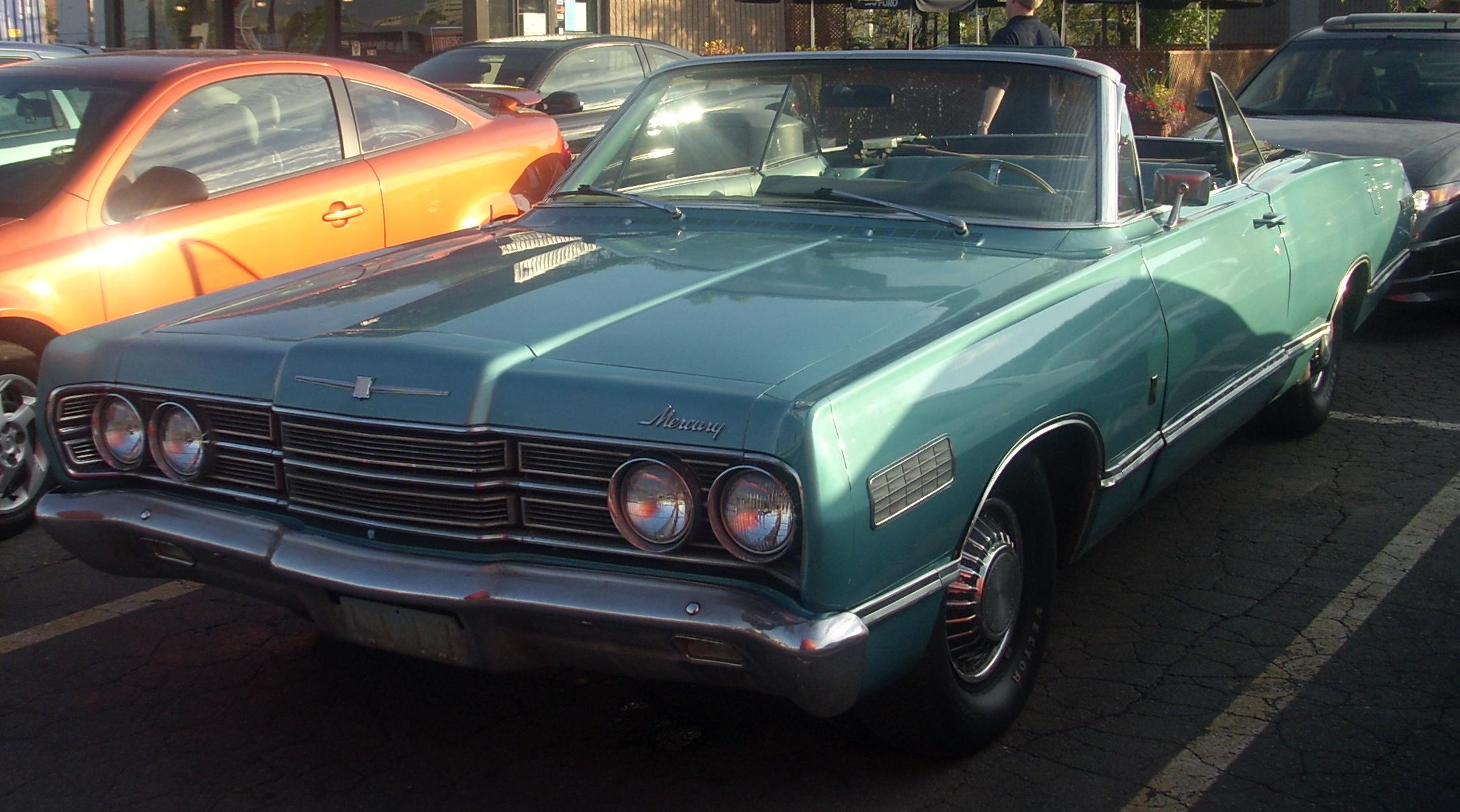 1967 Mercury Park Lane convertible photographed in Montreal, Quebec, Canada at Gibeau Orange Julep.